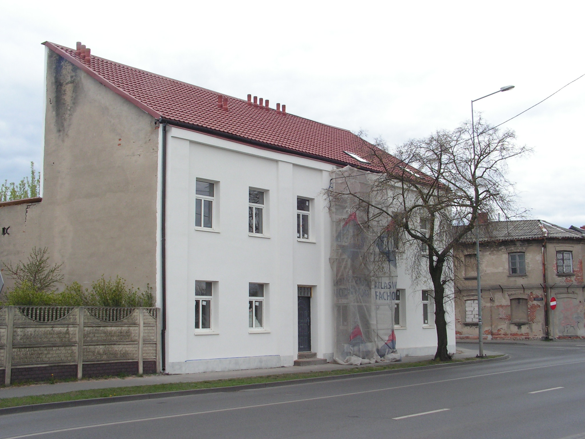 Tenement house built on the begging of 20th-century at 25 Kapitulna Street in Włocławek, renovated in 2020 year.